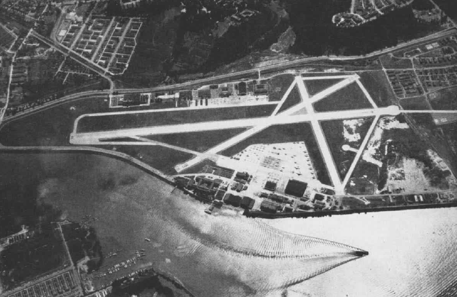 The Naval Air Station Anacostia, Washington D.C., USA, about 1946/47.